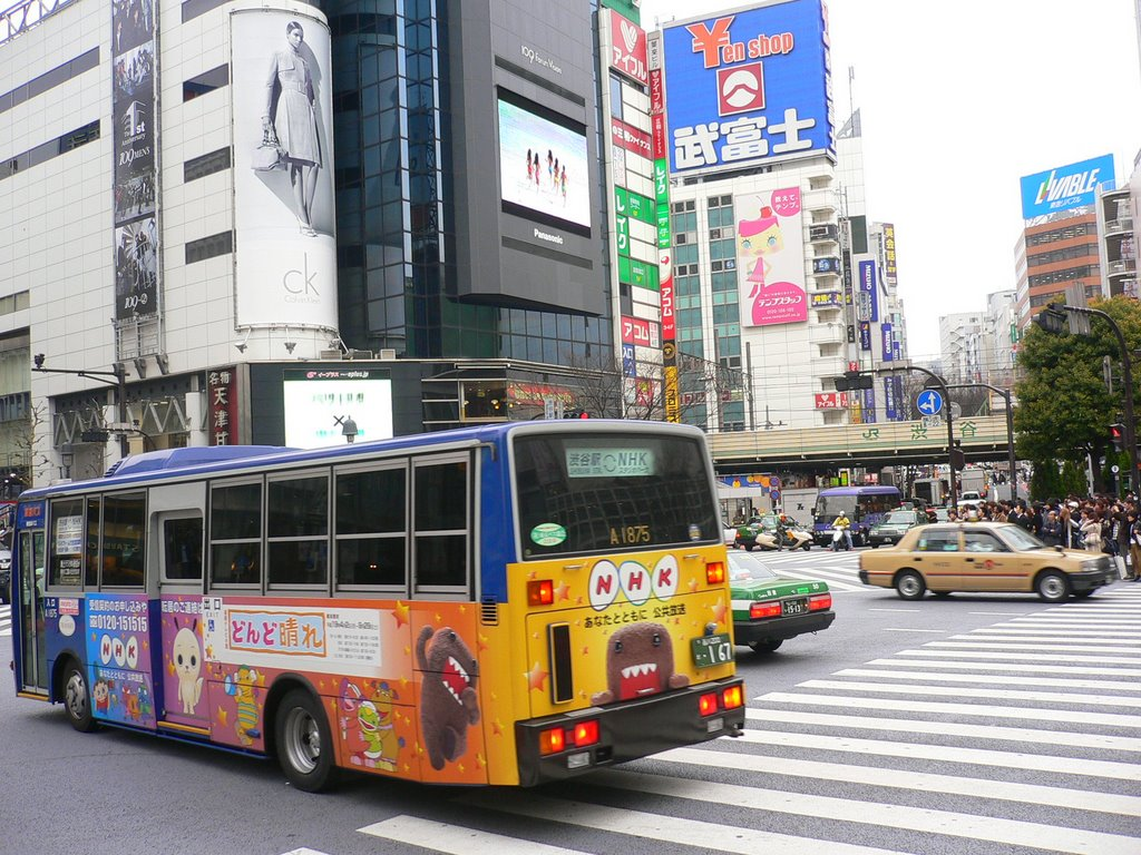 probably the most crowded traffic crossing in the world ..see video